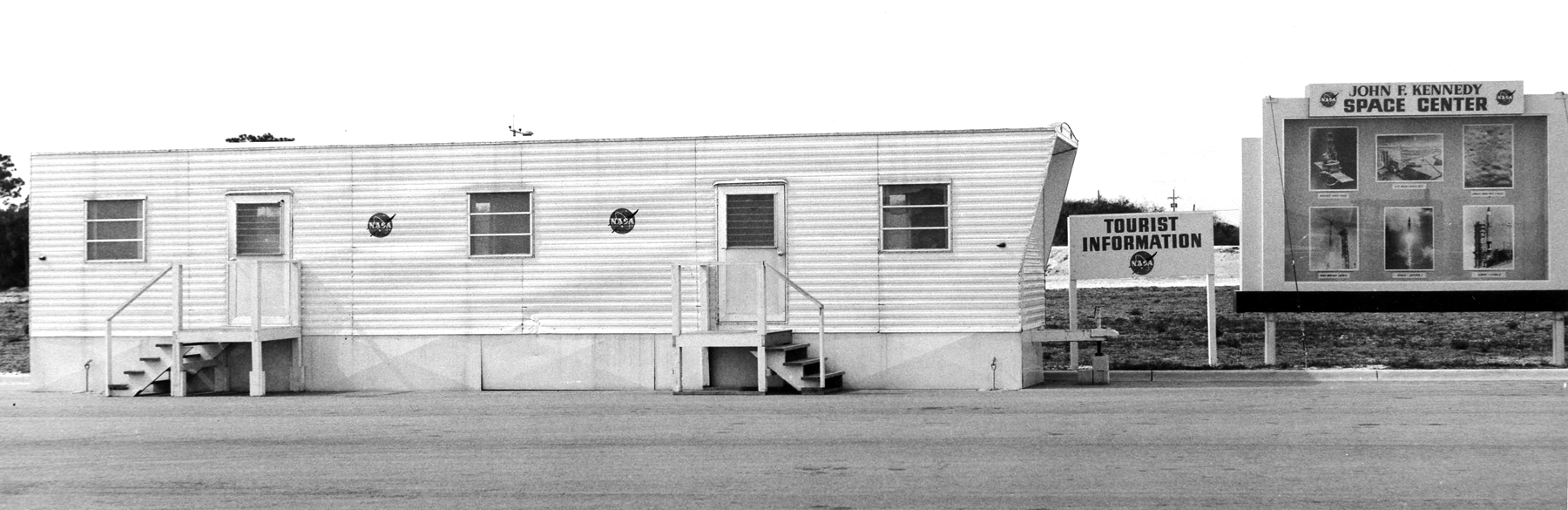 NASA setup a Tourist Information Center in 1965 on the Indian River Causeway. In 1965, this trailer was used as the Tourist Information Center while the permanent buildings were being constructed. The trailer was located at the west end of the Indian River Causeway.